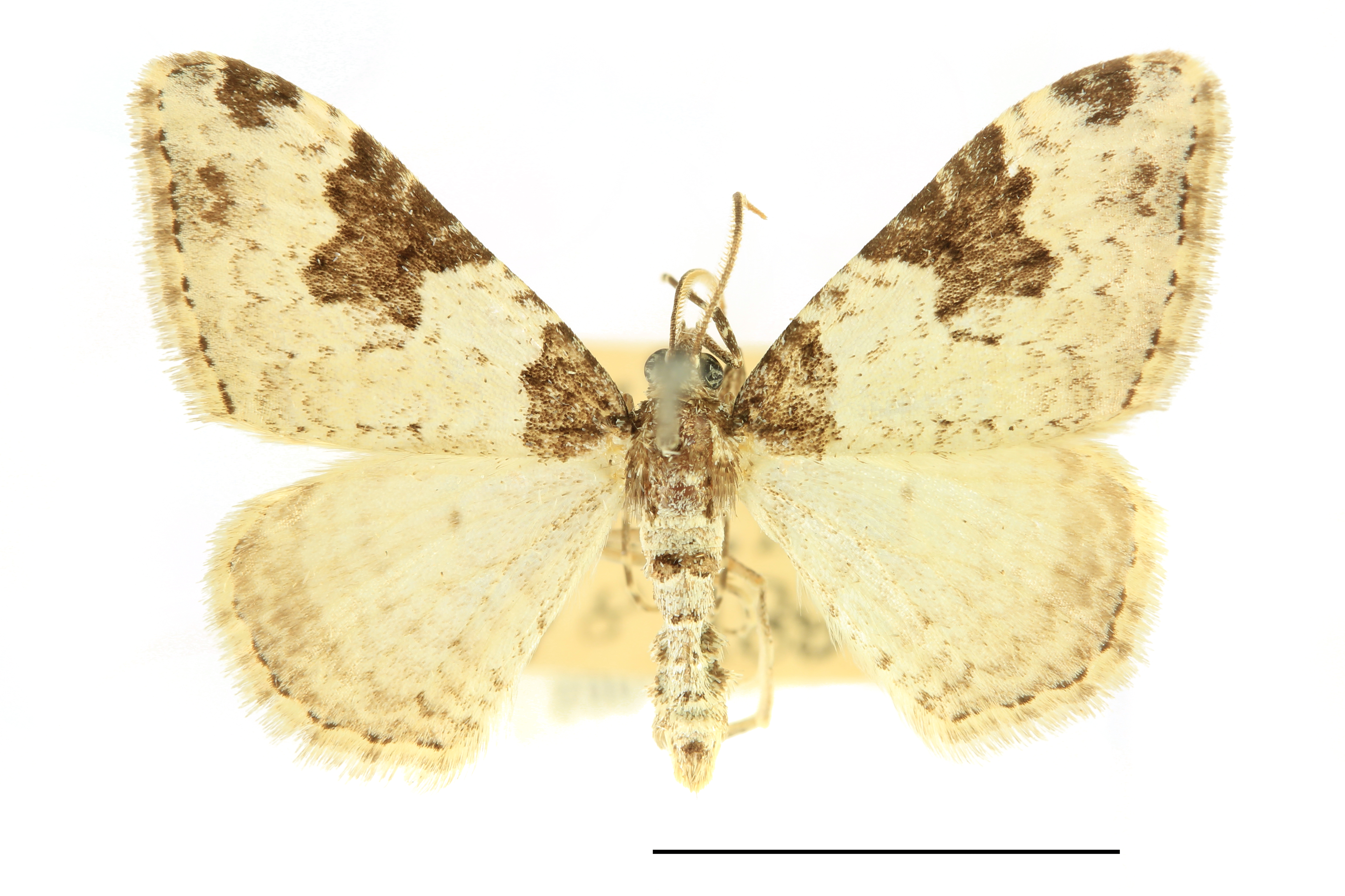 Xanthorhoe fluctuata, Insect collections, SLU, Uppsala